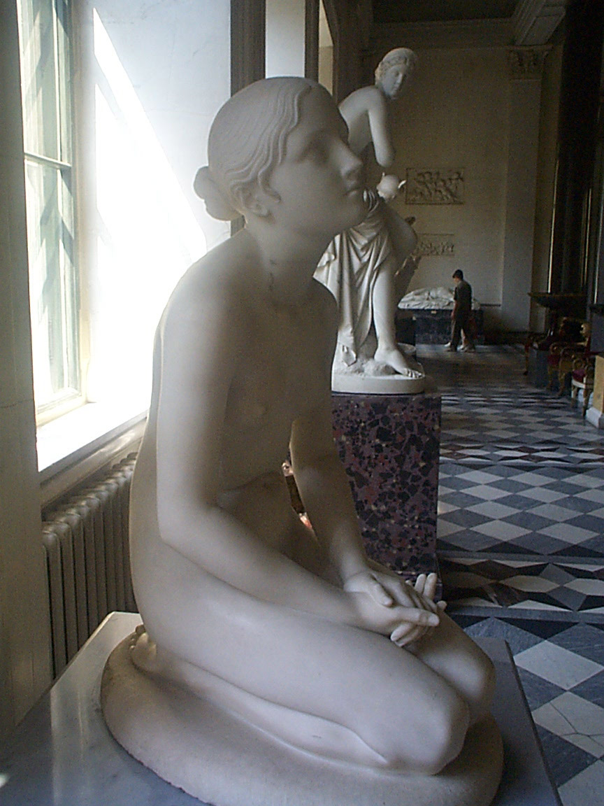 Title: La Fiducia in Dio (Trust in God) Location: Hermitage, St. Petersburg Photographer: Mak Thorpe, taken 1999.